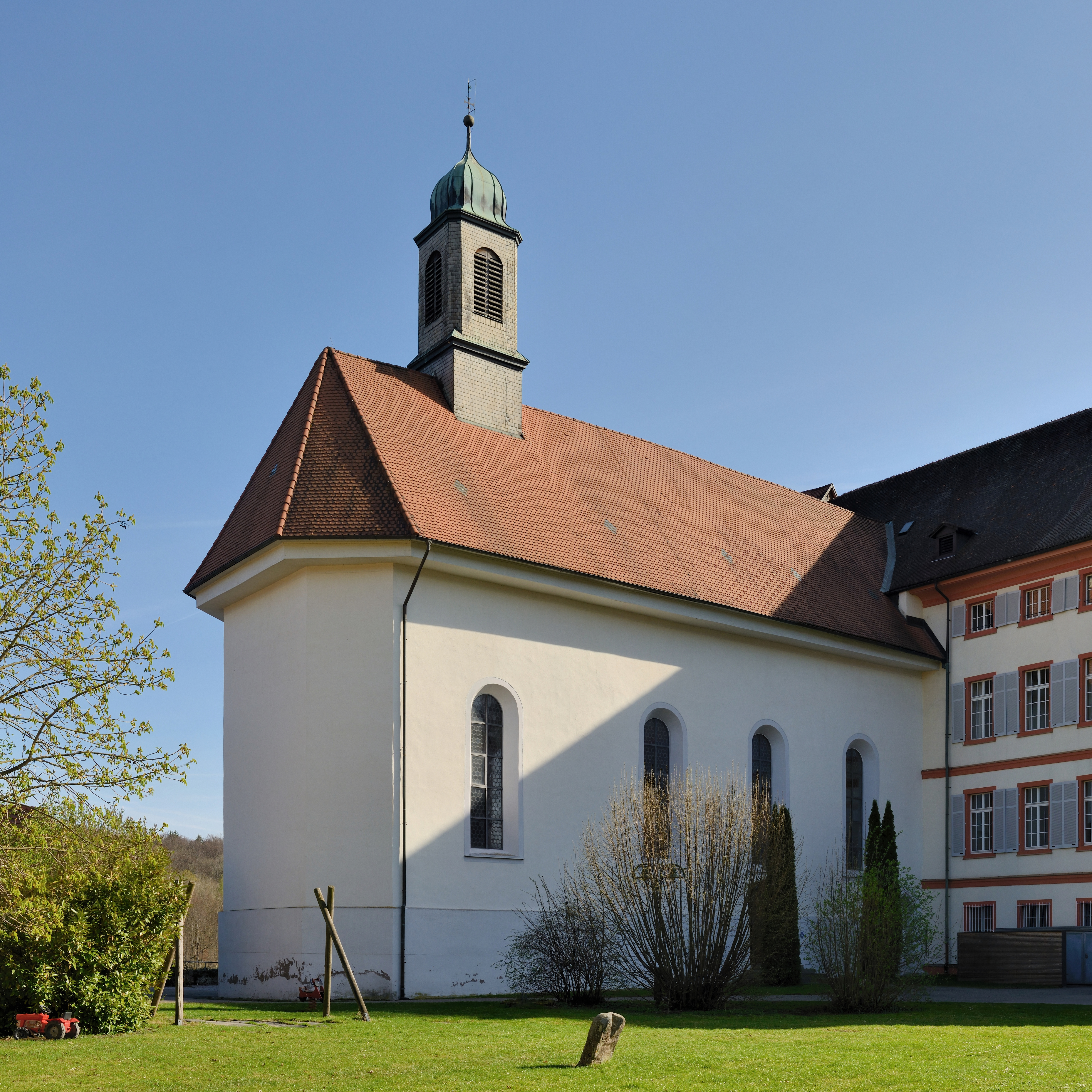 Rheinfelden: castle church Beuggen